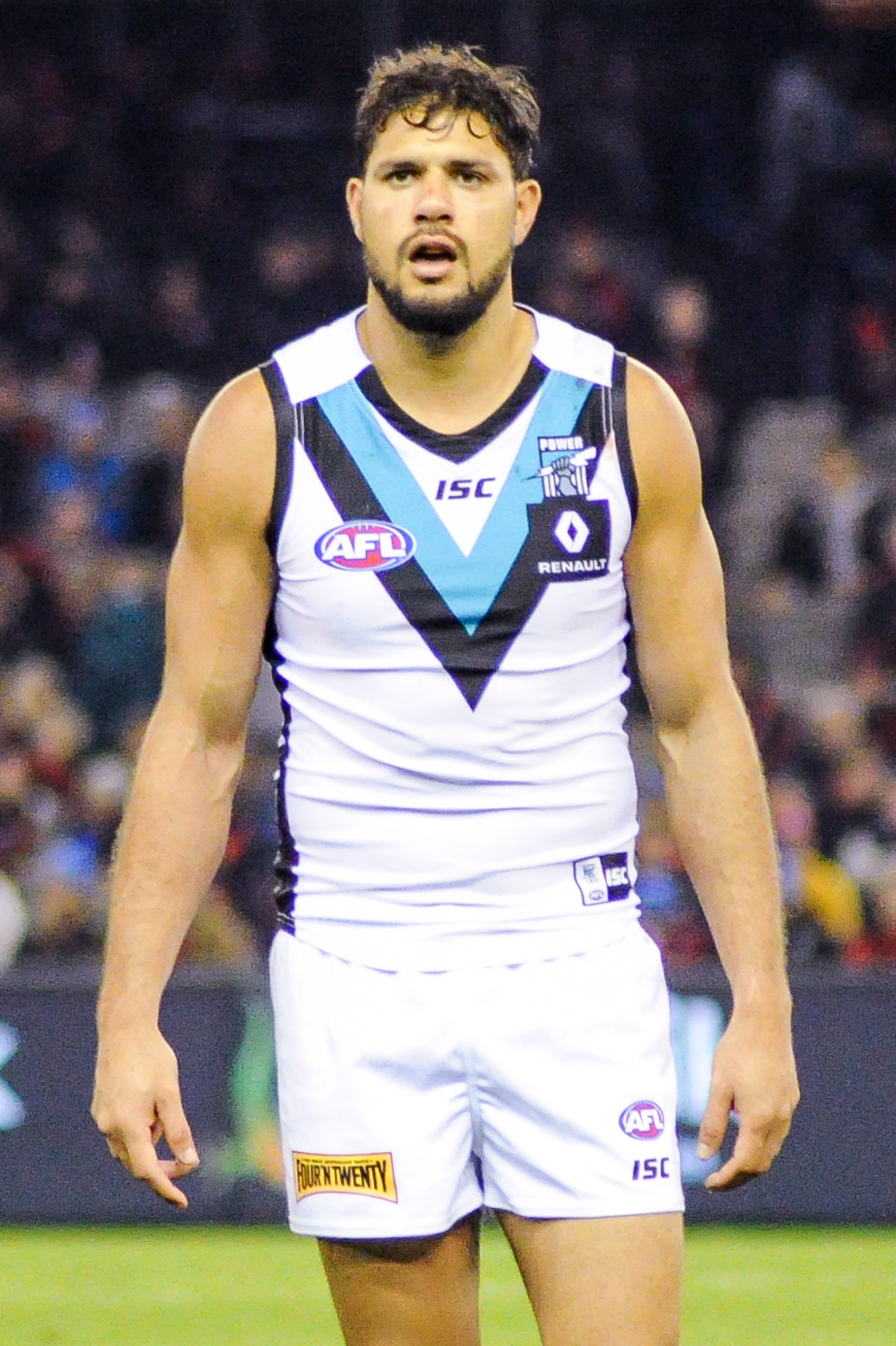 Paddy Ryder during the AFL round twelve match between Essendon and Port Adelaide on 10 June 2017 at Etihad Stadium in Melbourne, Victoria.